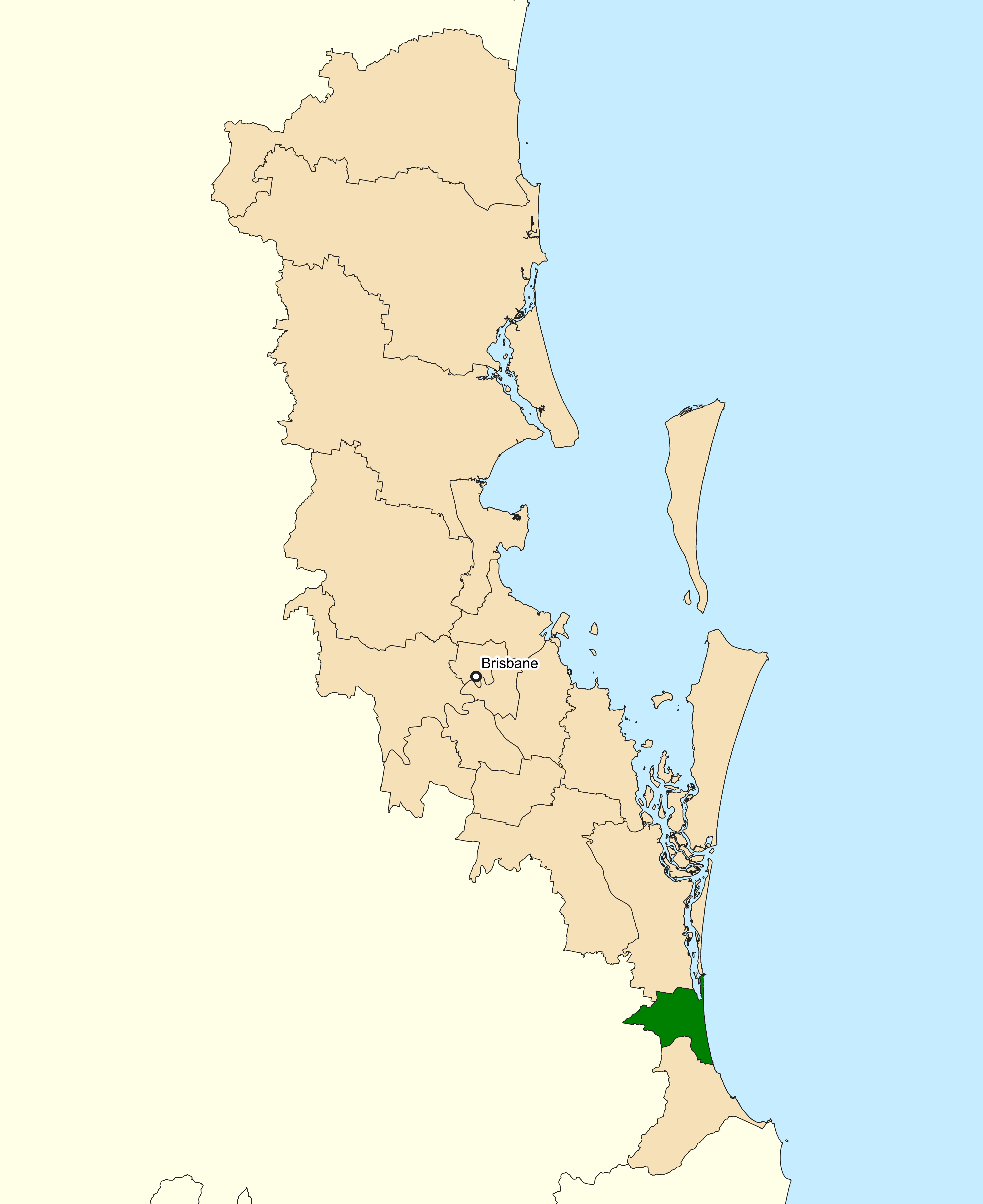 Location of the Australian federal electoral division of Moncrieff (dark green) in Greater Brisbane, Queensland as of the 2019 Australian federal election. Incorporates or developed using Administrative Boundaries ©PSMA Australia Limited licensed by the Commonwealth of Australia under Creative Commons Attribution 4.0 International licence (CC BY 4.0).